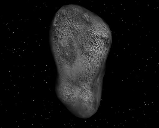 An artist's conception of what the Jovian moon Elara might look like.